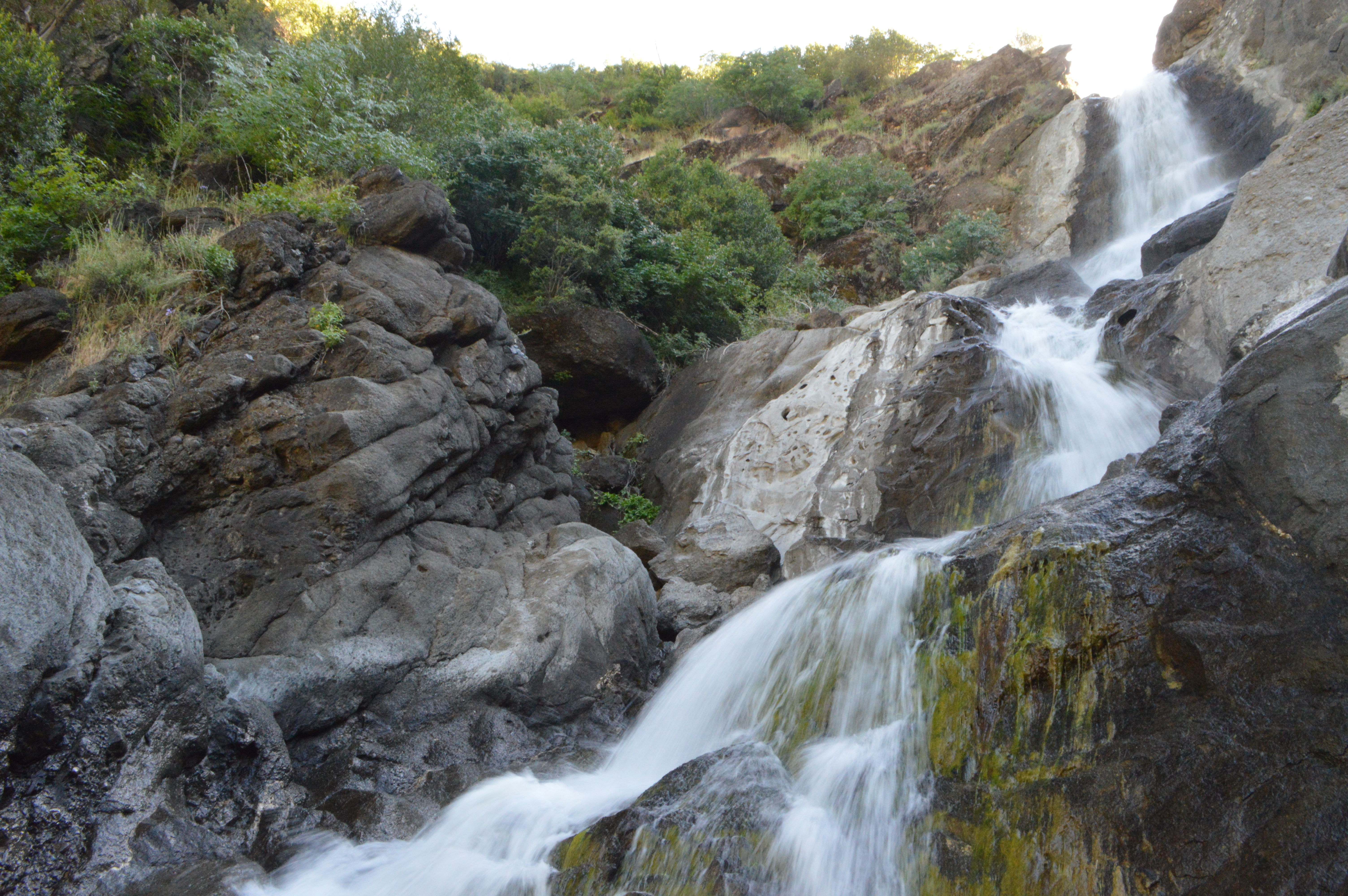 Zim Zim Falls along ZimZim Creek in northern Napa County